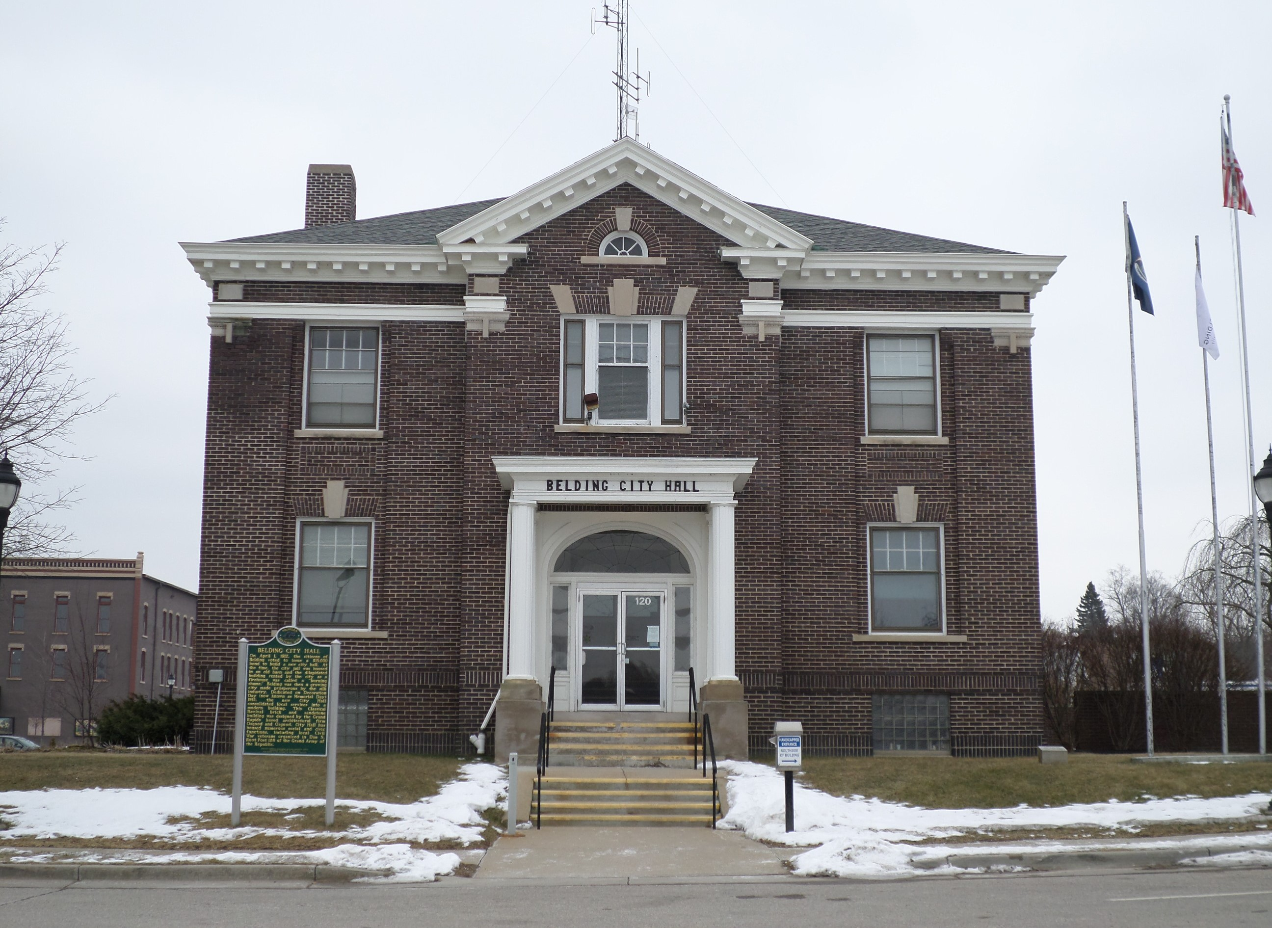 The Belding City Hall, located at 120 Pleasant St, Belding, MI.